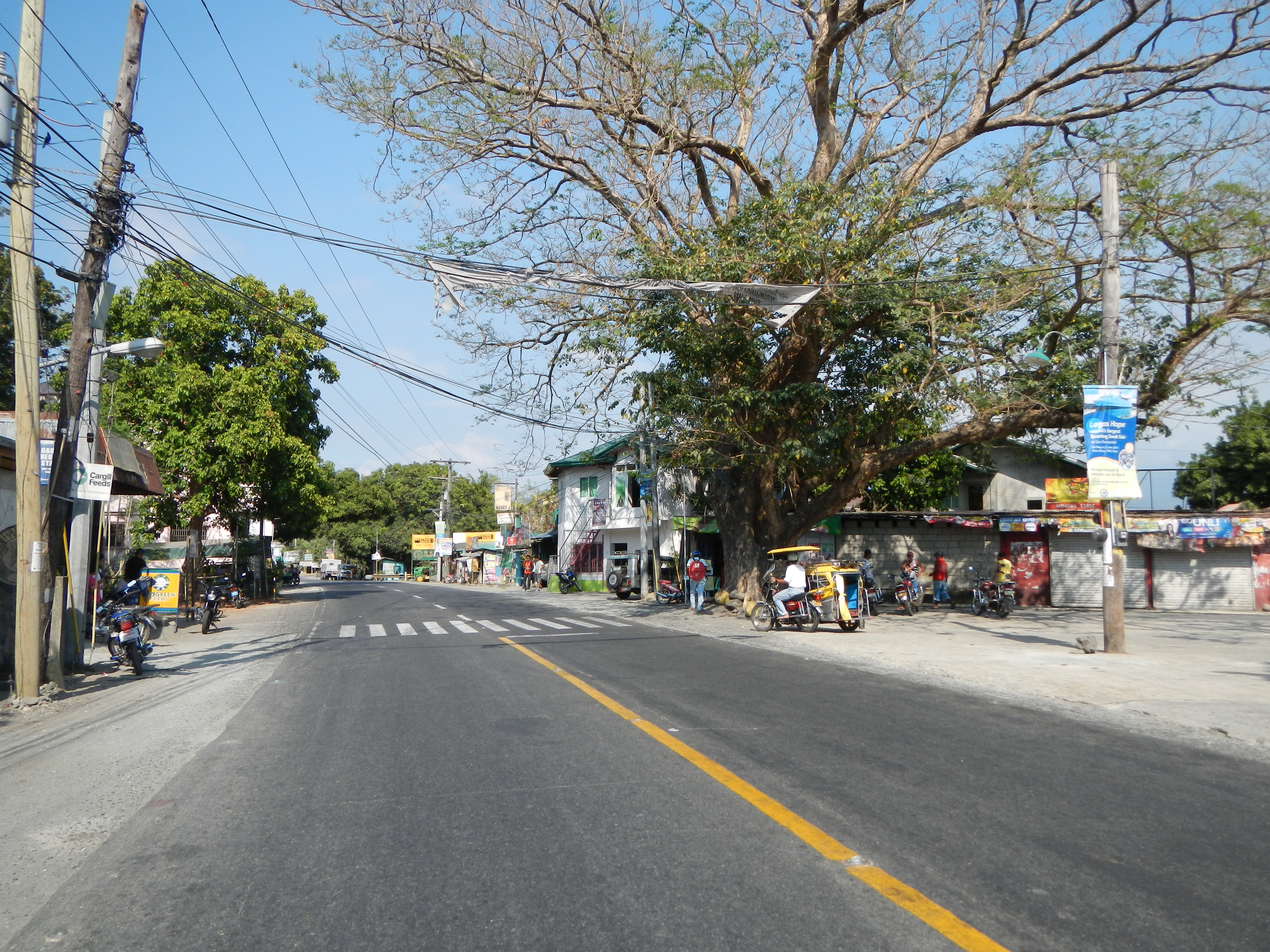 Town Hall Complex, Compound of Sudipen, La Union [1] (including the Legislative Building, MTC Halls of Justice, Police Station, Auditorium beside Public Market, Water District, along Pan-Philippine Highway gateway to Ilocos Sur province).